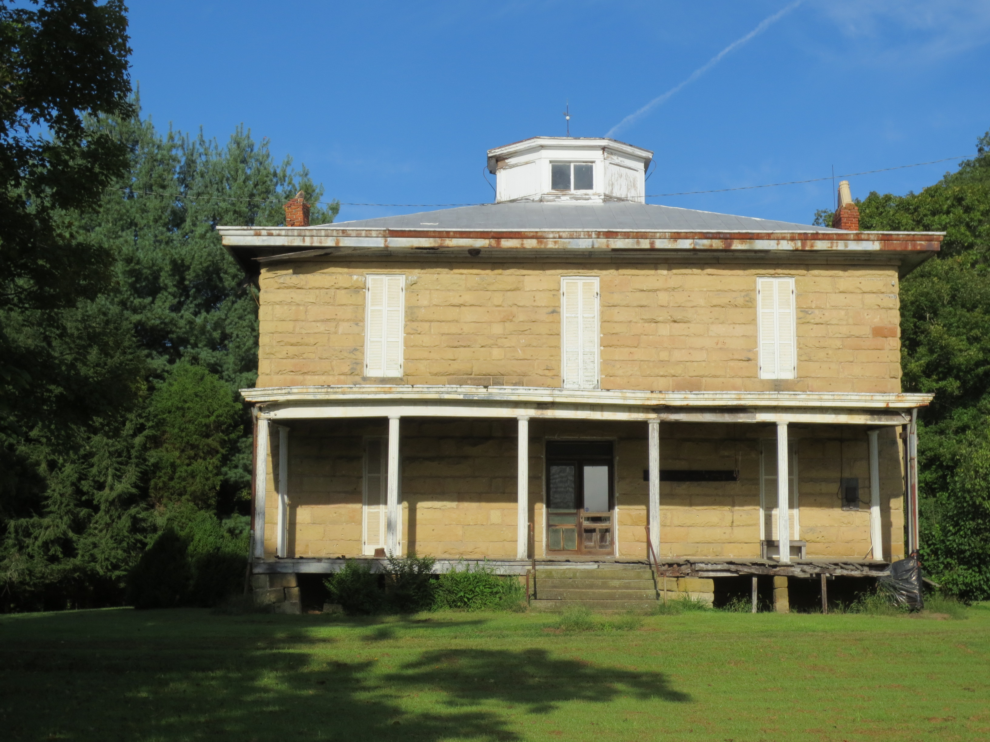 Gen. John McCausland House, U.S. Route 35; also Grape Hill Leon